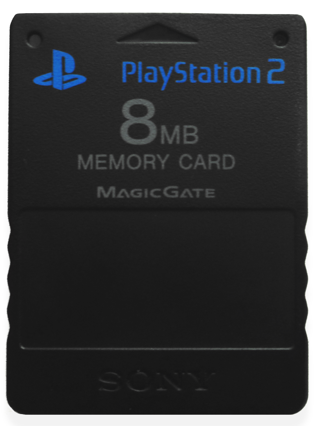 A Sony PlayStation 2 Memory Card with 8MB of memory.